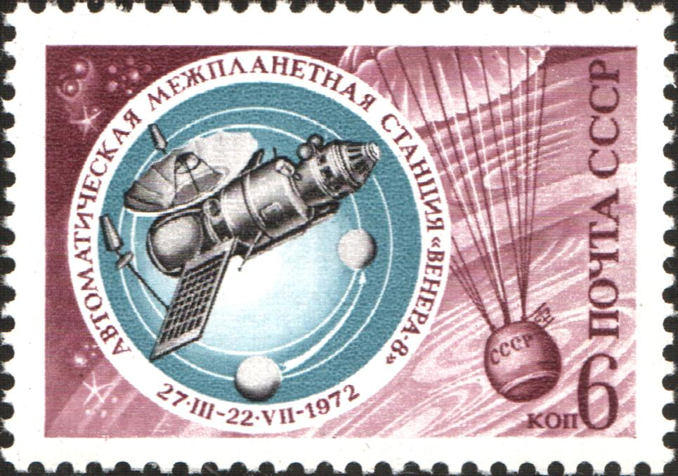 USSR stamp